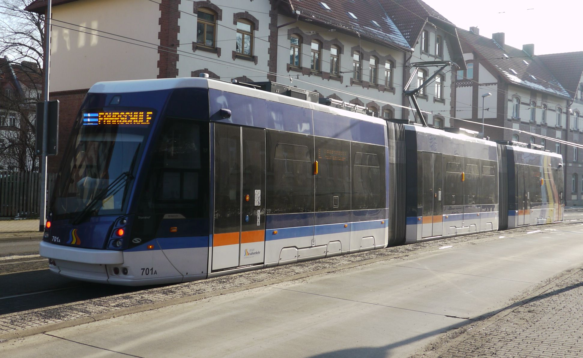 The new Solaris Tramino #701 "Berkeley" reached the station Scharnhorststrasse (Jena, Germany) during a driving lesson.